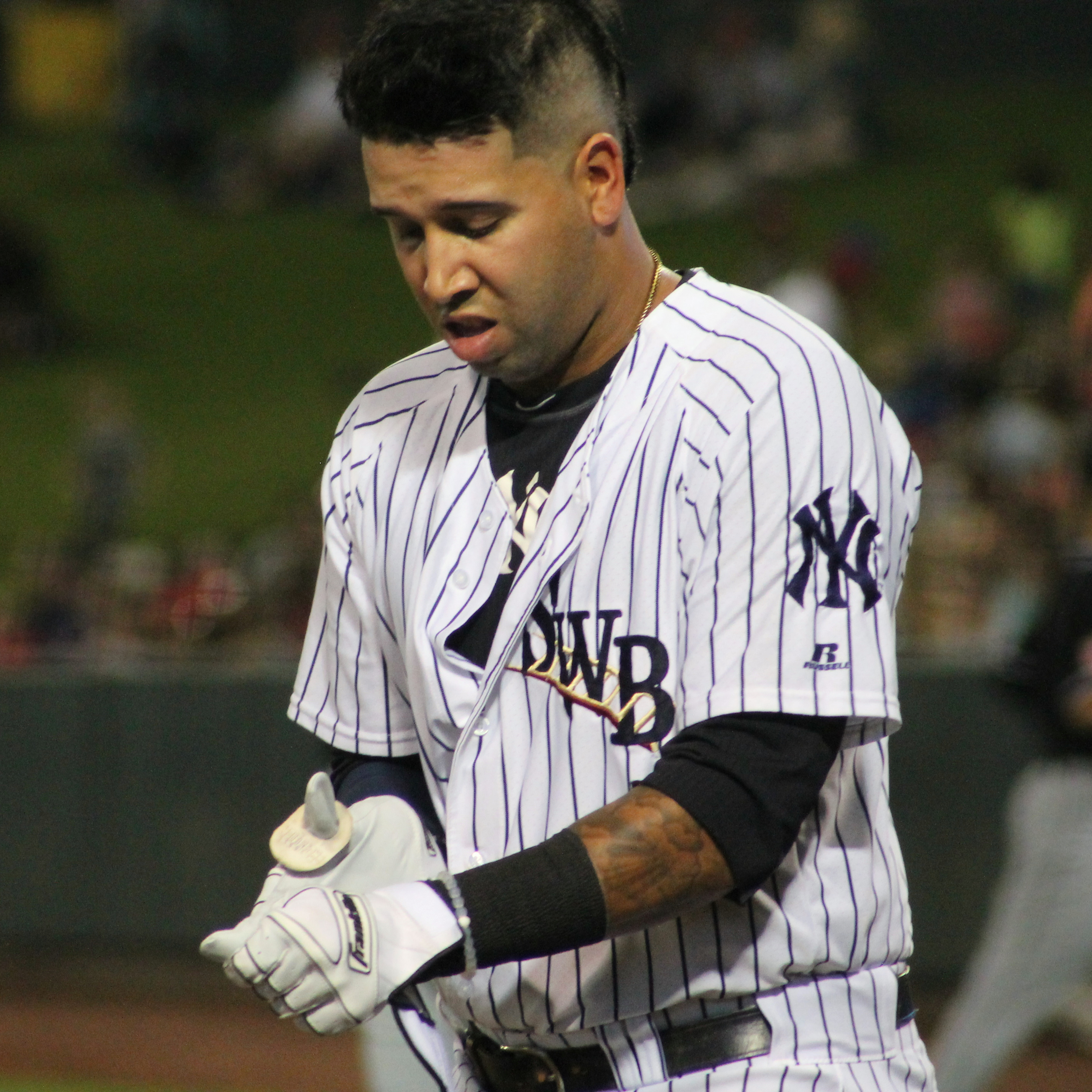 Cito Culver, a professional baseball player, during a game in Memphis in September 2016.